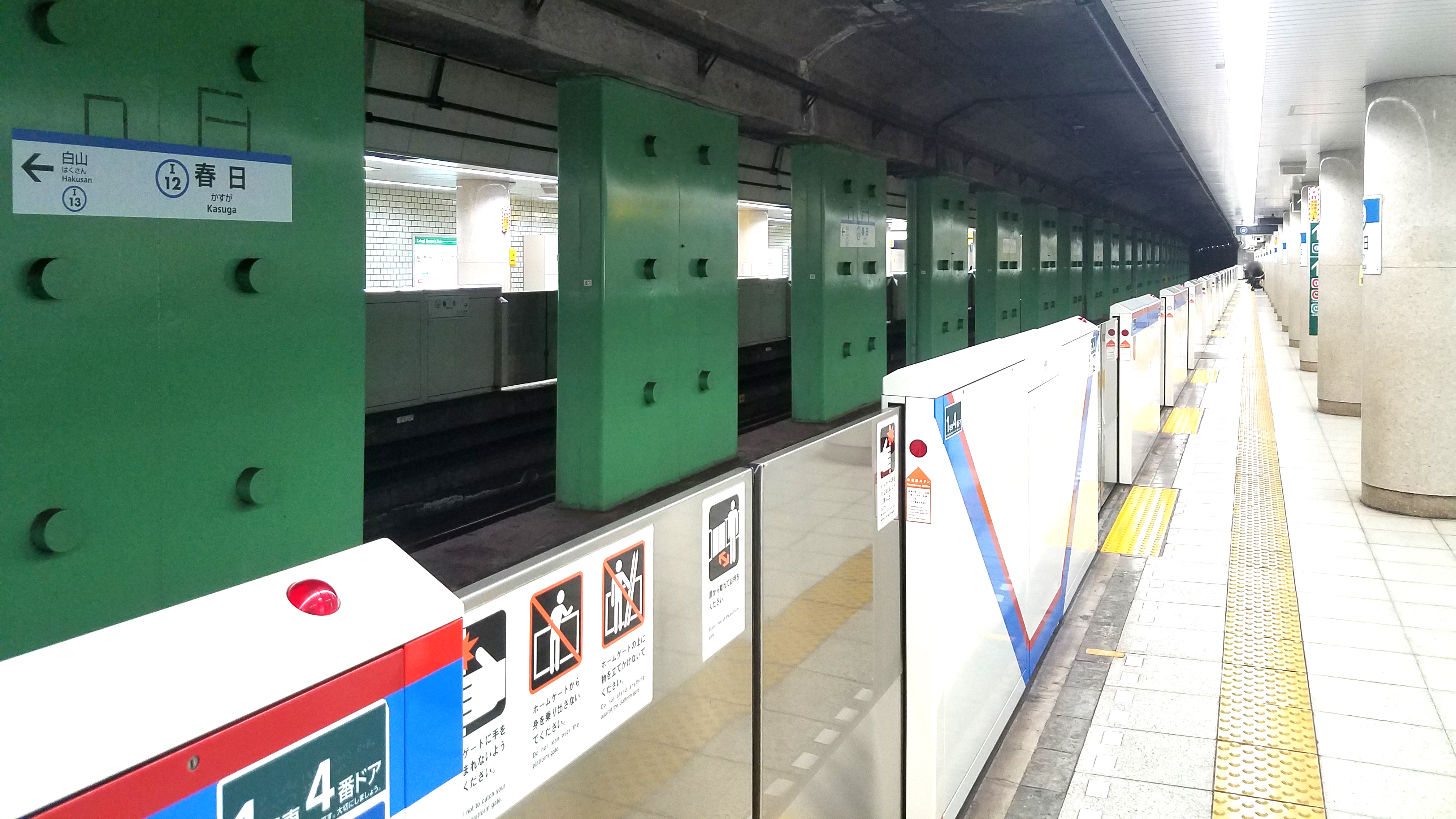 The platforms at Kasuga Station on the Toei Mita Line in Bunkyō city, Tokyo, Japan